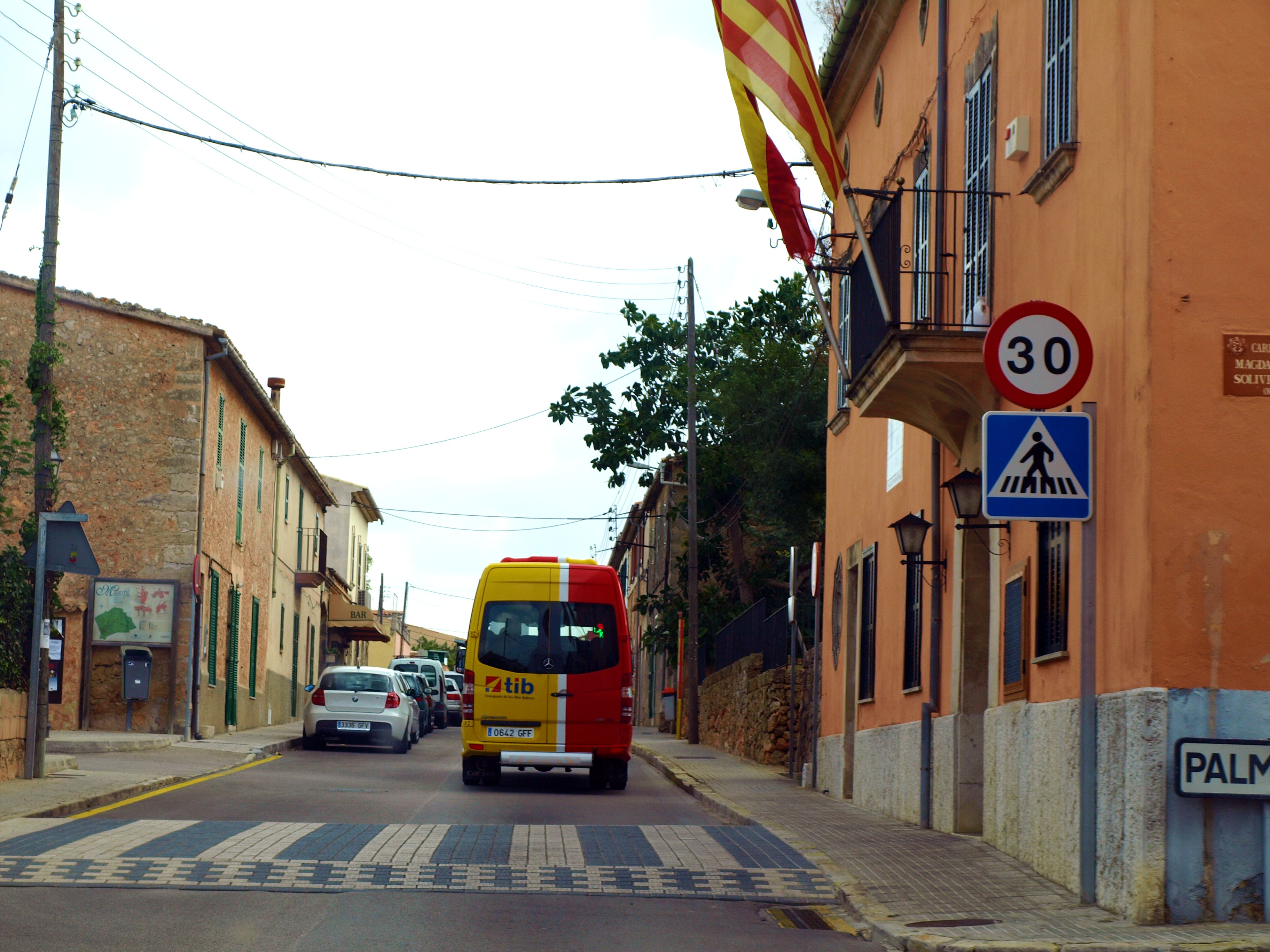 Marratxí, Town Hall, and L301 bus Marratxí Station-Portol in Camí de n’Olesa, Sa Cabaneta, Marratxí Mallorca